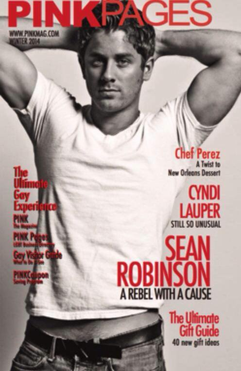 Winter Issue